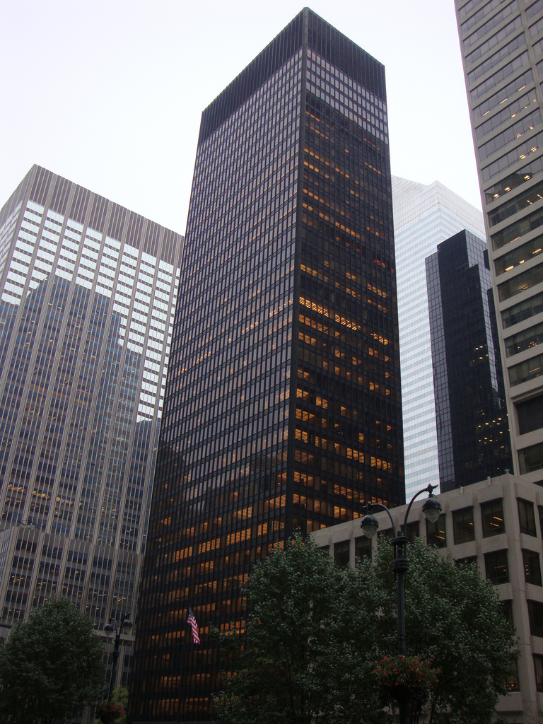 Seagram Building - NewYork - architects: Mies van der Rohe and Philip Johnson